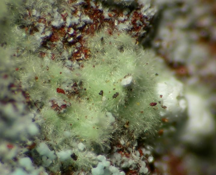 Zálesiite Locality: Serpieri Mine, Kamariza Mines (Kamareza Mines), Agios Konstantinos [St Constantine] (Kamariza), Lavrion District Mines, Lavrion (Laurion; Laurium) District, Attikí (Attica; Attika) Prefecture, Greece (Locality at ) Light green acicular xls of Zálesiite. Field of view 3 mm. Specimen and photo Leon Hupperichs.